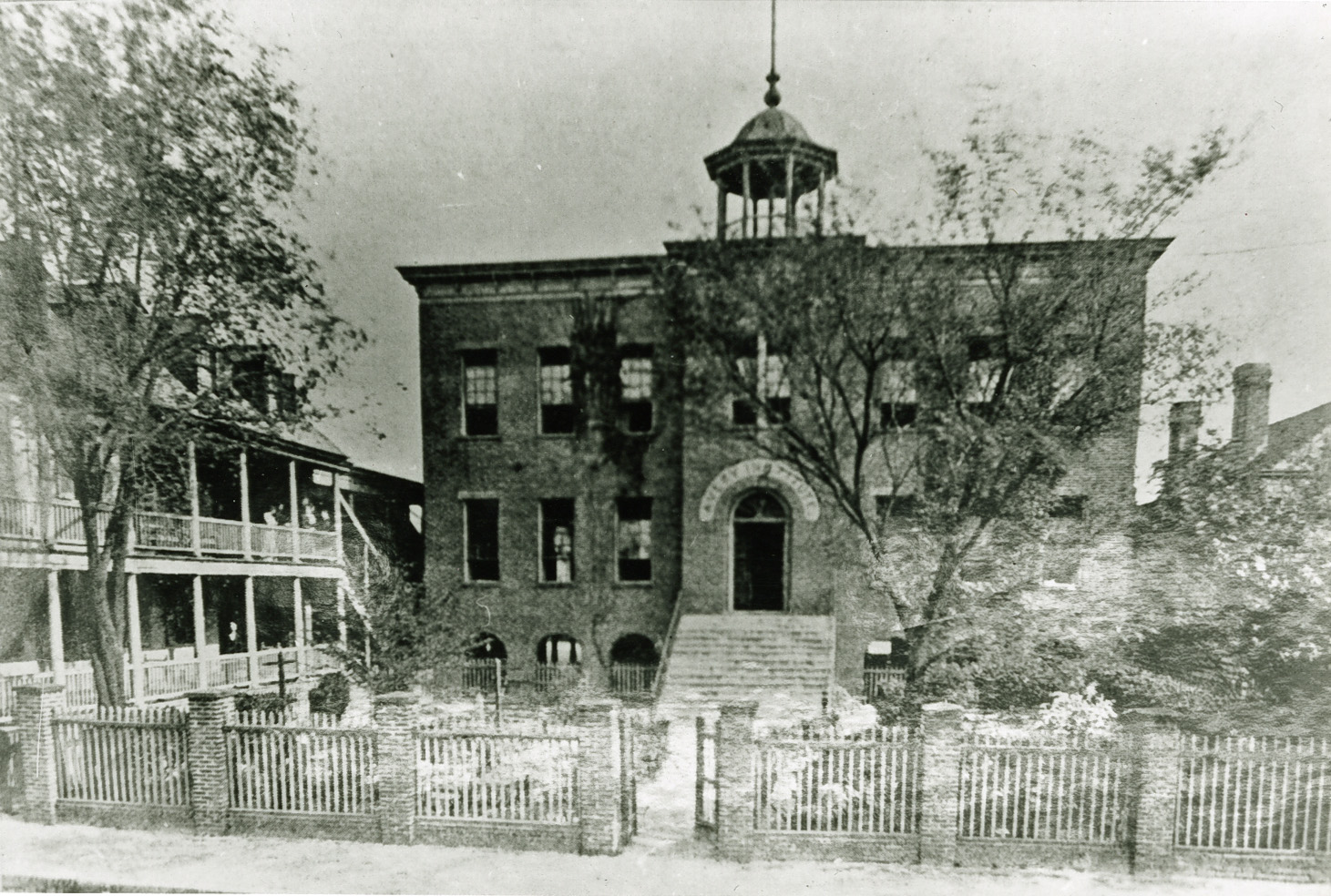 The Avery Research Institute, ca 1870, Avery Photo Collection, 30-2, Courtesy of the Avery Research Center